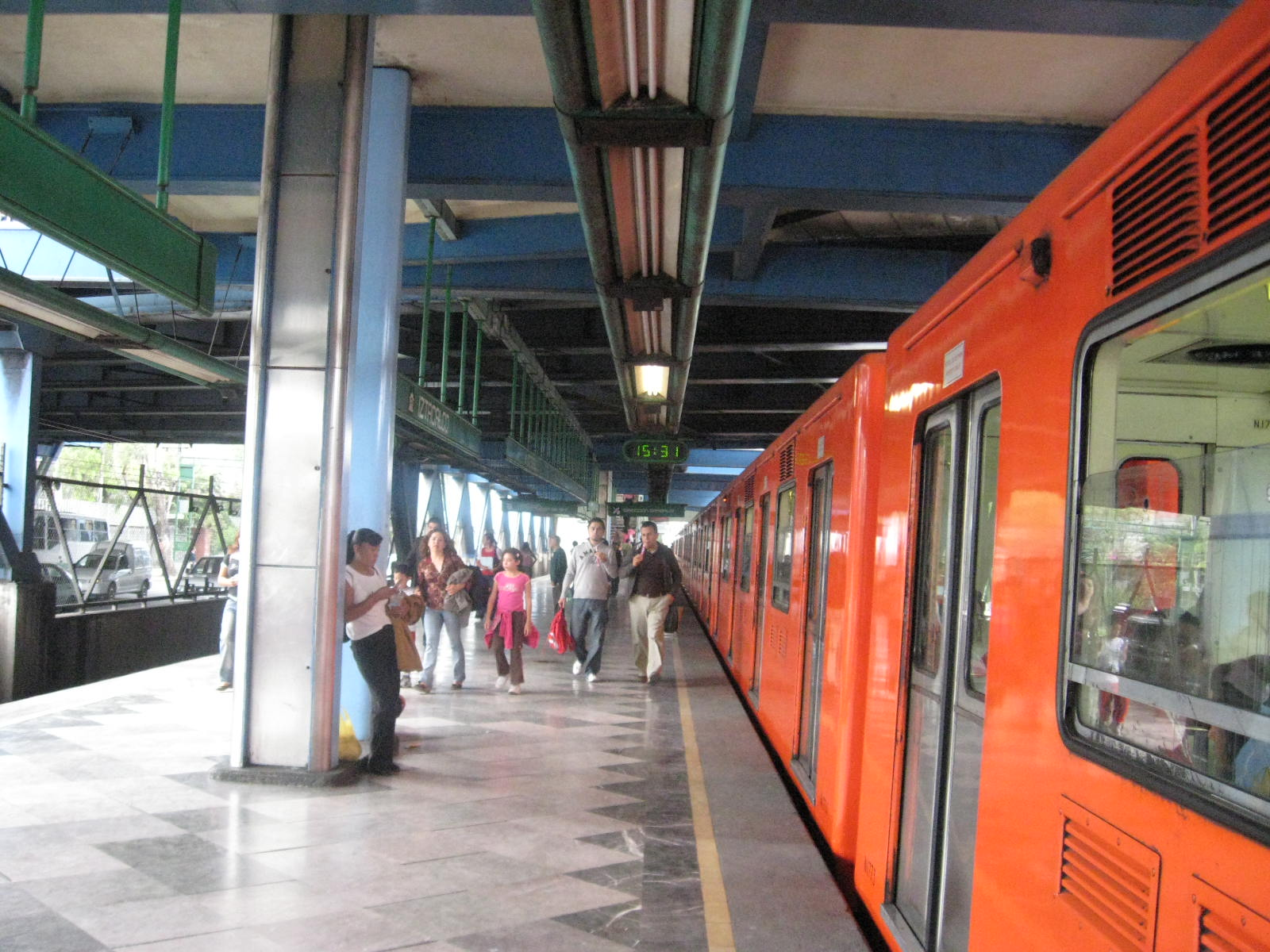 Platform of Metro station Iztacalco of Line 8 of the Mexico City Metro system